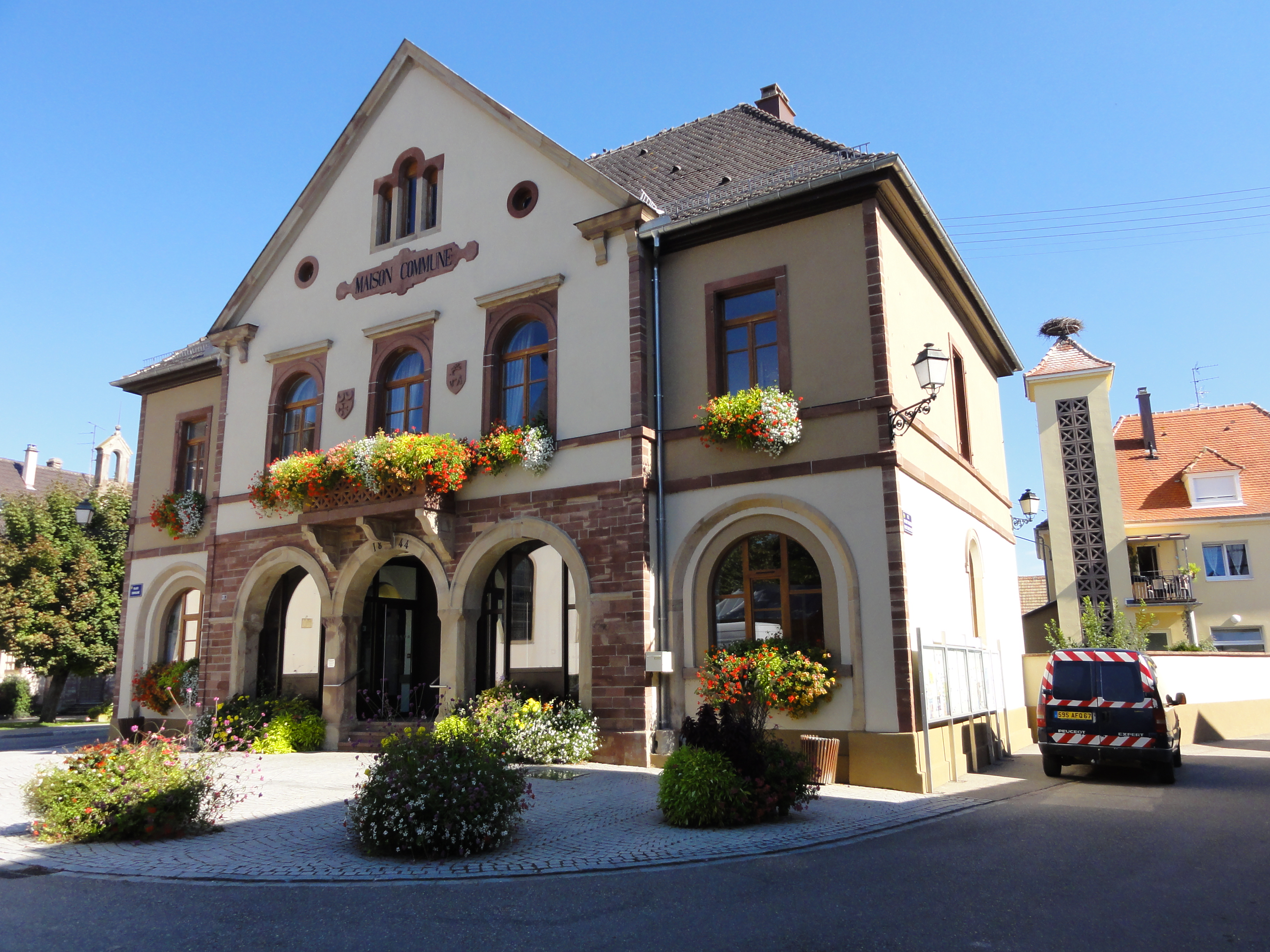 Alsace, Bas-Rhin, Sundhouse, Mairie (1844), 1 place Crinoline.